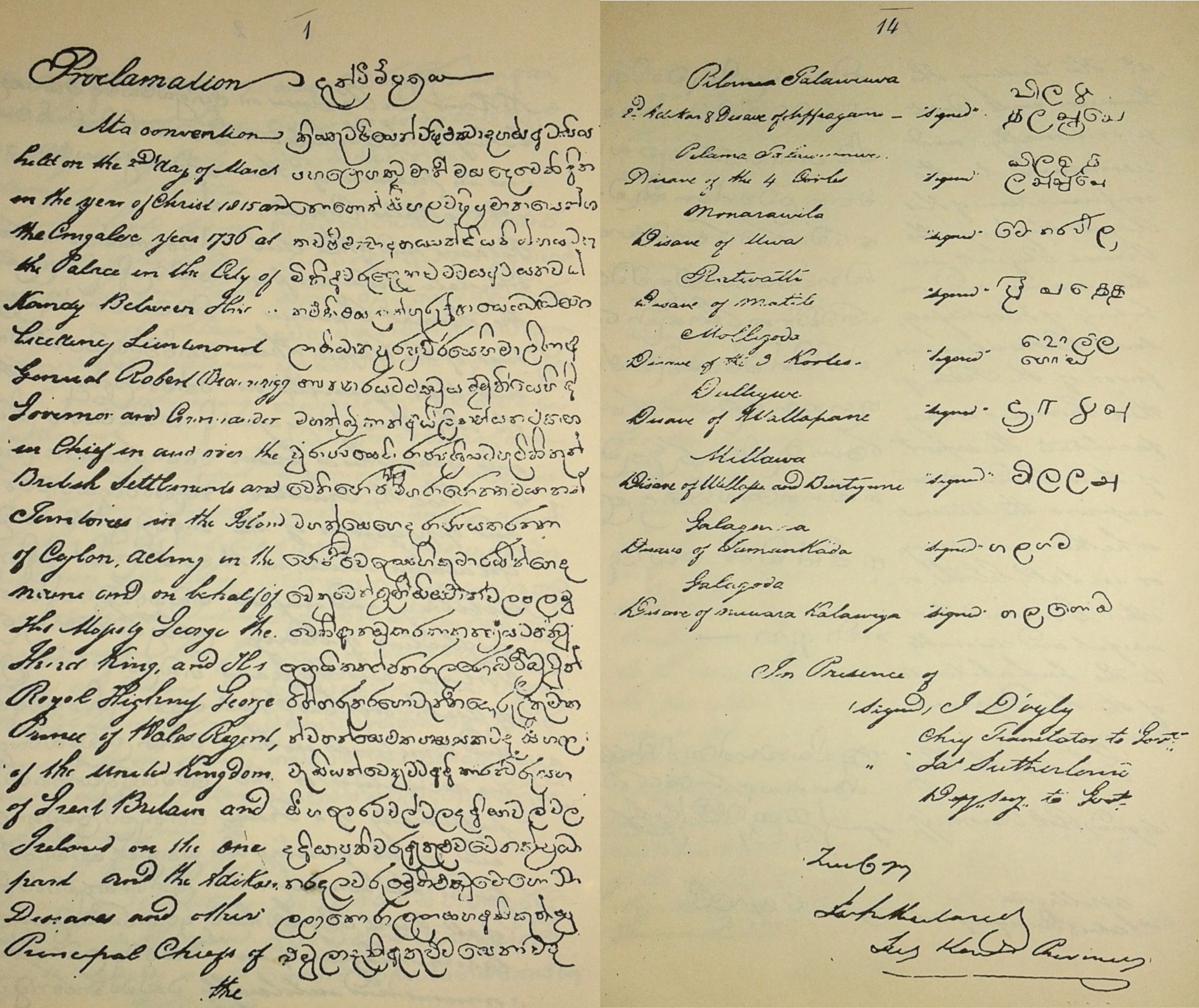 An image of the first and last pages of the Kandyan Convention of 1815